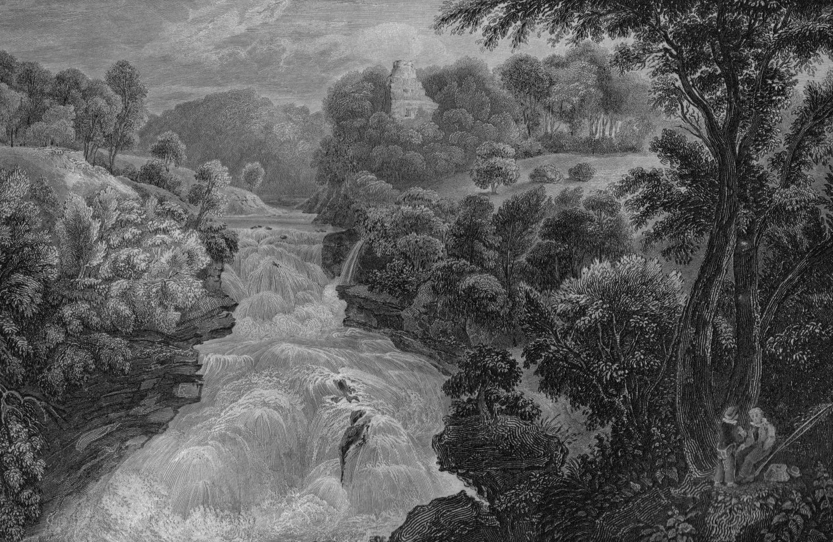 Corra linn on the river Clyde. A view from 1830.